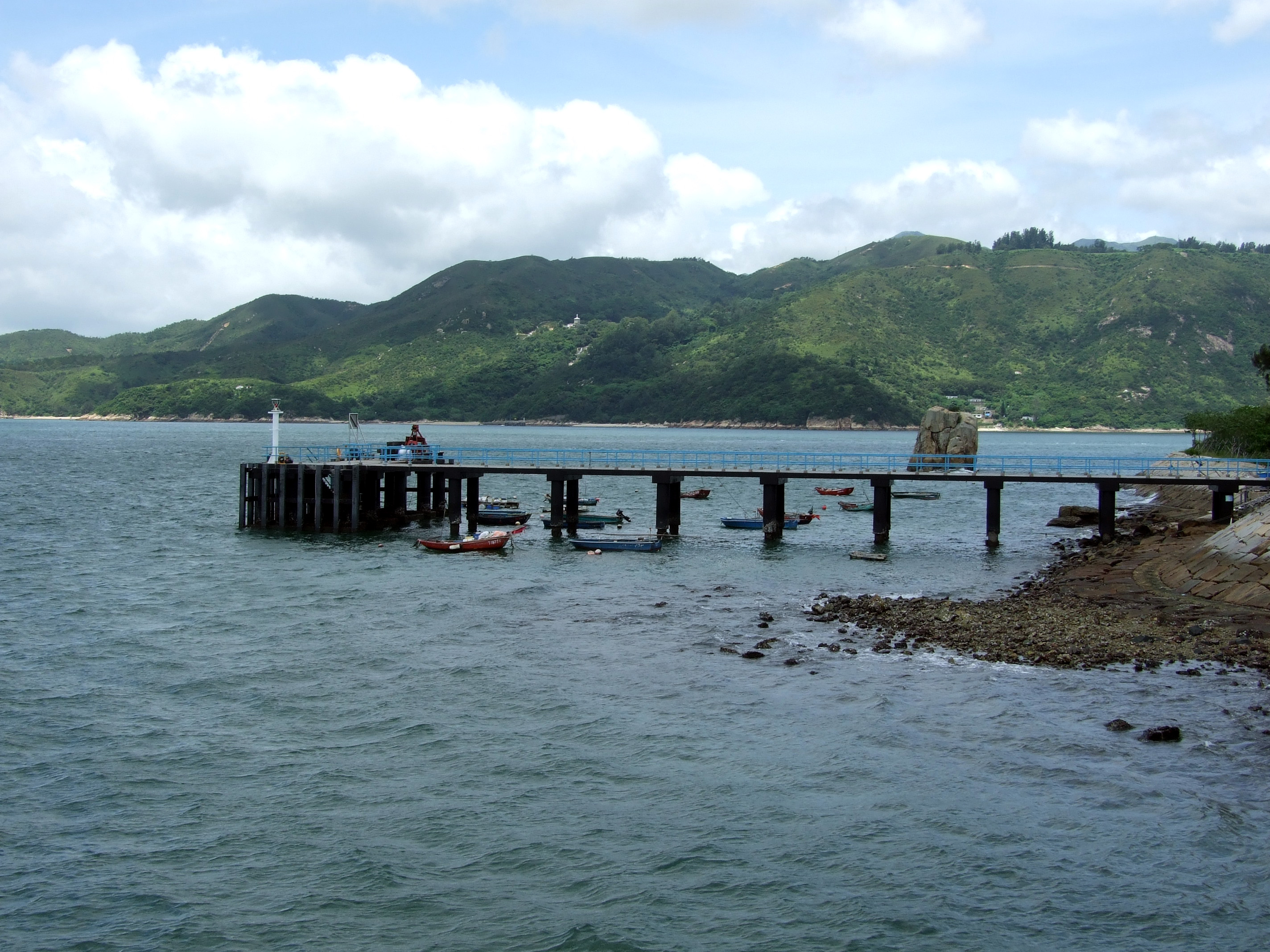 中文（香港）: 大利島公眾碼頭 Public pier of Tai Lei, a small island off Peng Chau. The land in the background is part of Lantau Island.